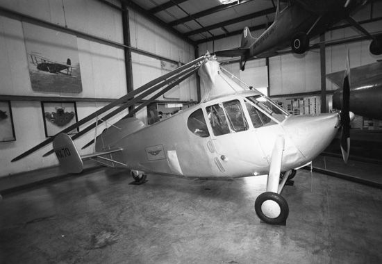 Pitcairn (Autogyro Company of America) AC-35 roadable autogyro.